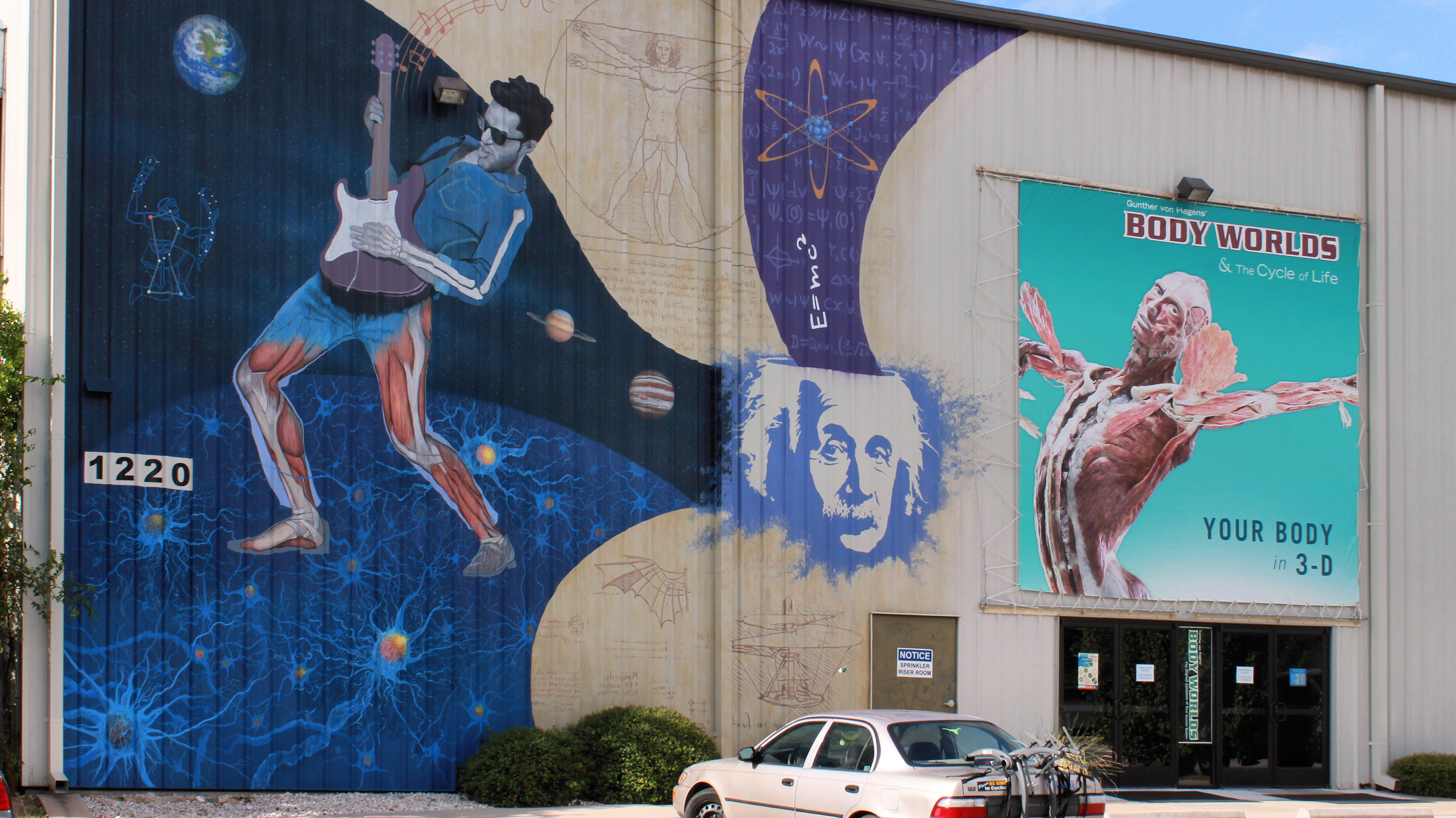 Texas Museum of Science and Technology in Cedar Park, Texas, United States